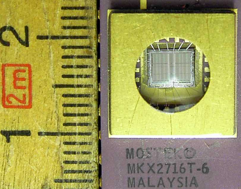 The image shows an EPROM chip with the type number 2716 (16 kbit). The rulers unit is in miliimeter.